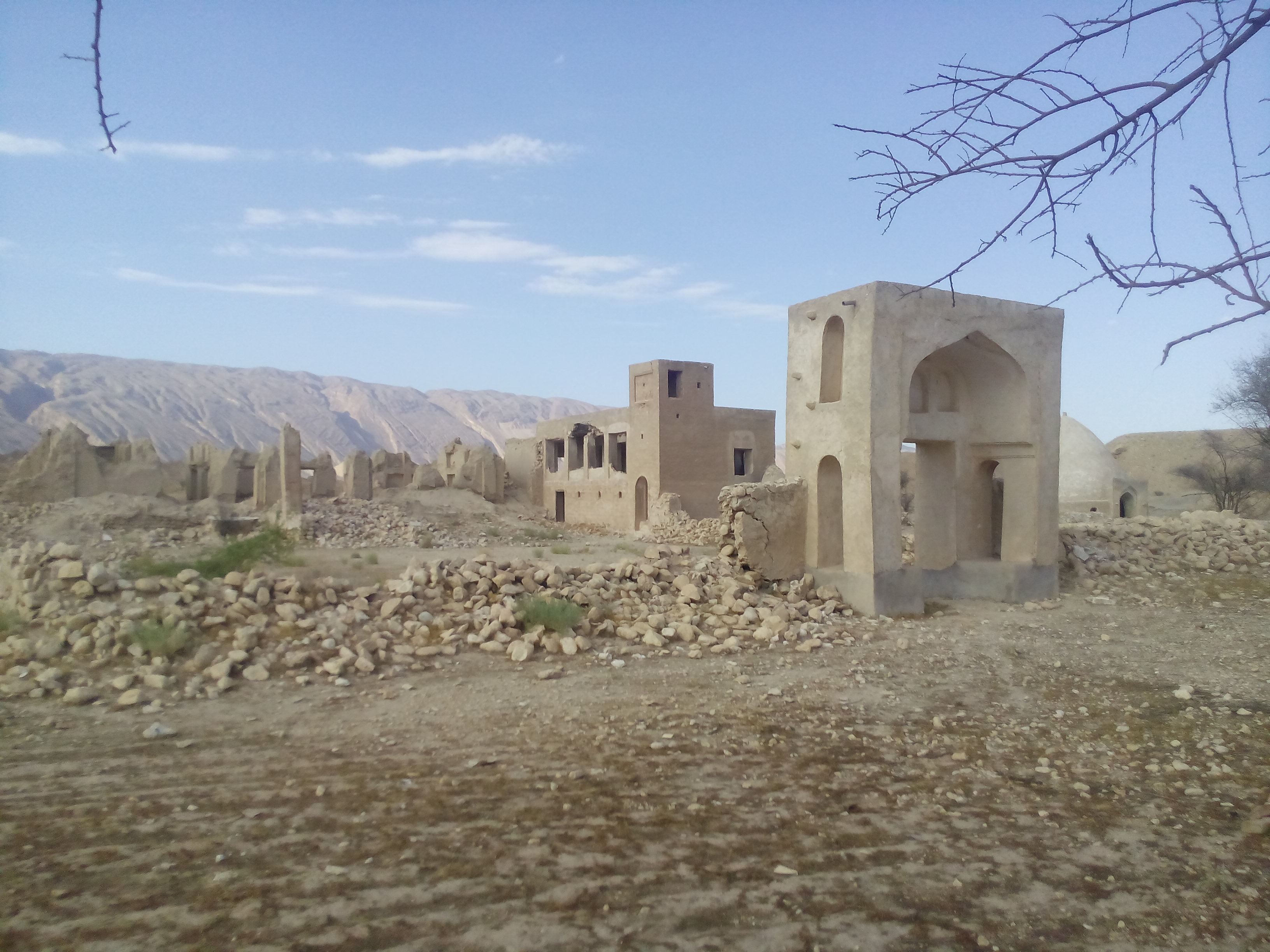 Keriki bungalow a historical place in Bastak city hormozgan province Iran